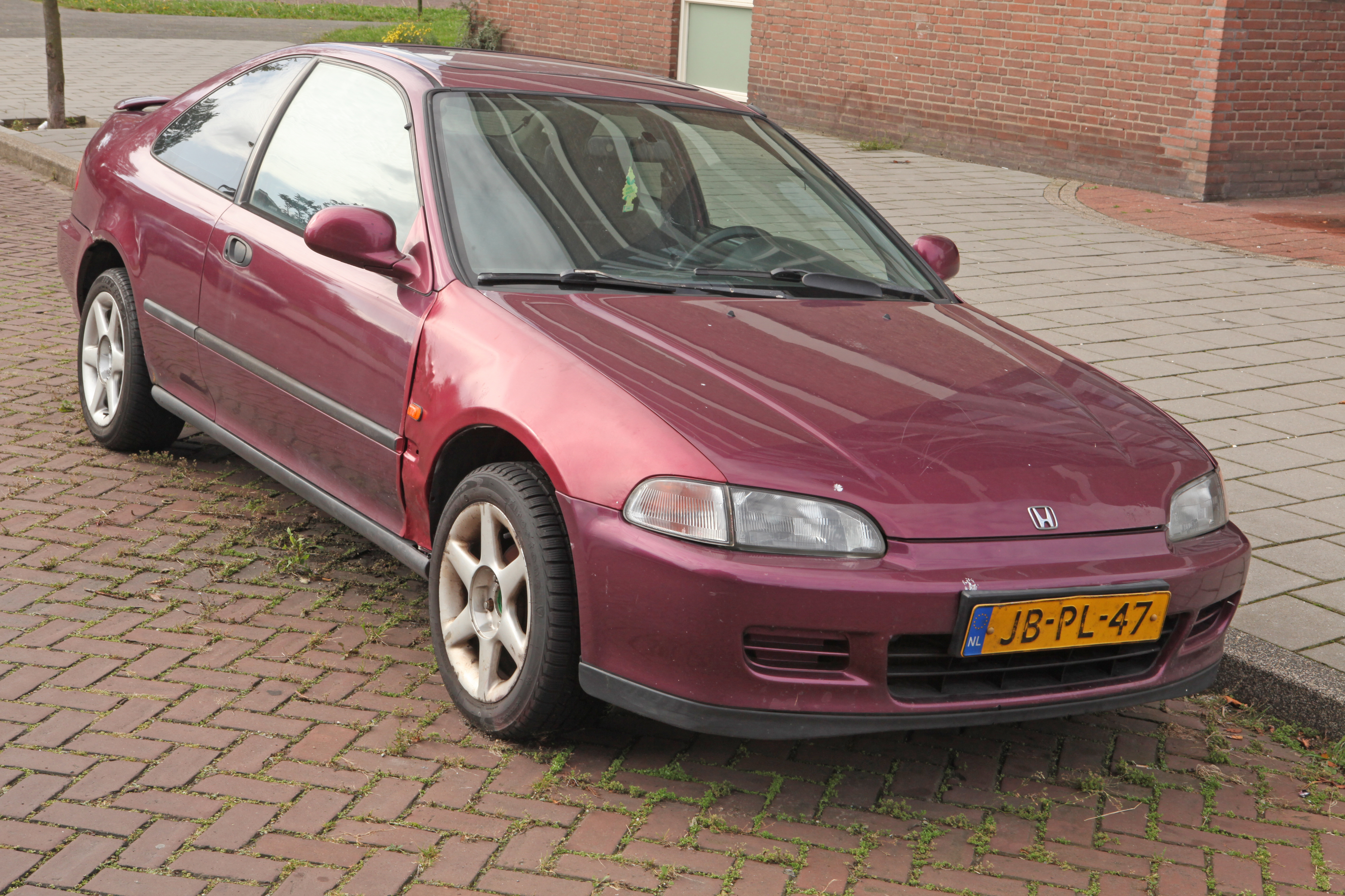 1994 Honda Civic Coupe 1.5 LSI